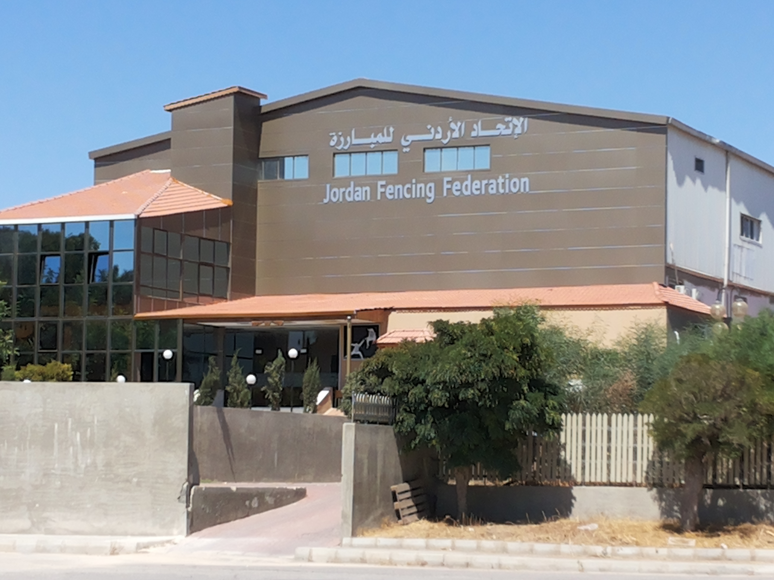 Jordan Fencing Federation at Al Hussein Youth City, Amman, Jordan.